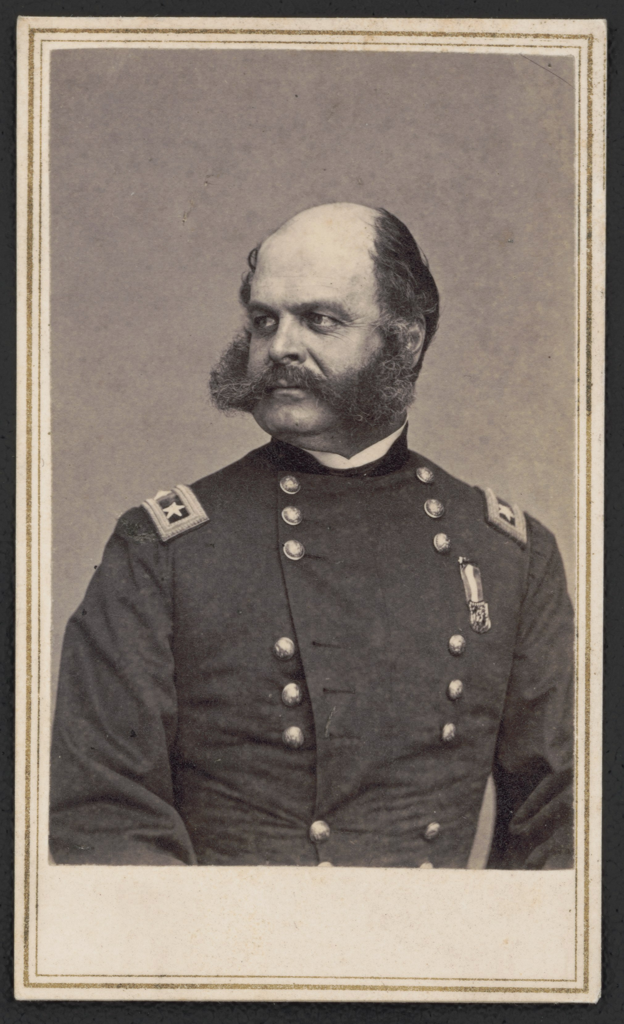 Title: Major General Ambrose Burnside of 1st Rhode Island Infantry Regiment and General Staff U.S. Volunteers Infantry Regiment in uniform] / From negative in Brady's National Portrait Gallery Abstract/medium: 1 photograph : albumen print on card mount ; mount 11 x 6 cm (carte de visite format)